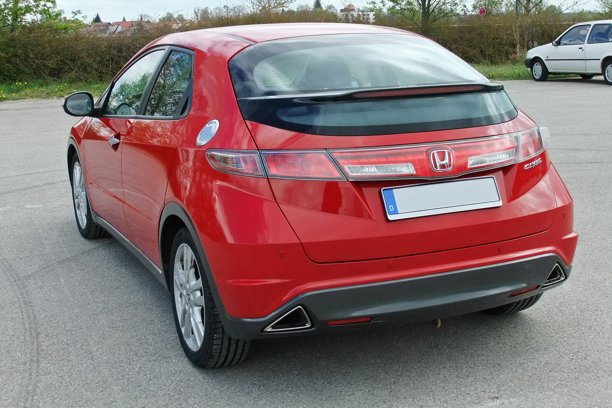 Honda Civic 1.8 i-VTEC Mk. VIII rear